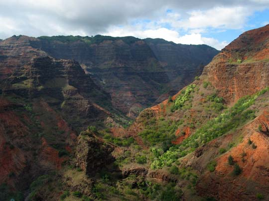 Waimea Canyon, also called the "Grand Canyon of the Pacific", located on the island of Kaua'i, Hawai'i, USA Author: Michael Oswald Time: August 31, 2005 Camera: Canon Powershot G3